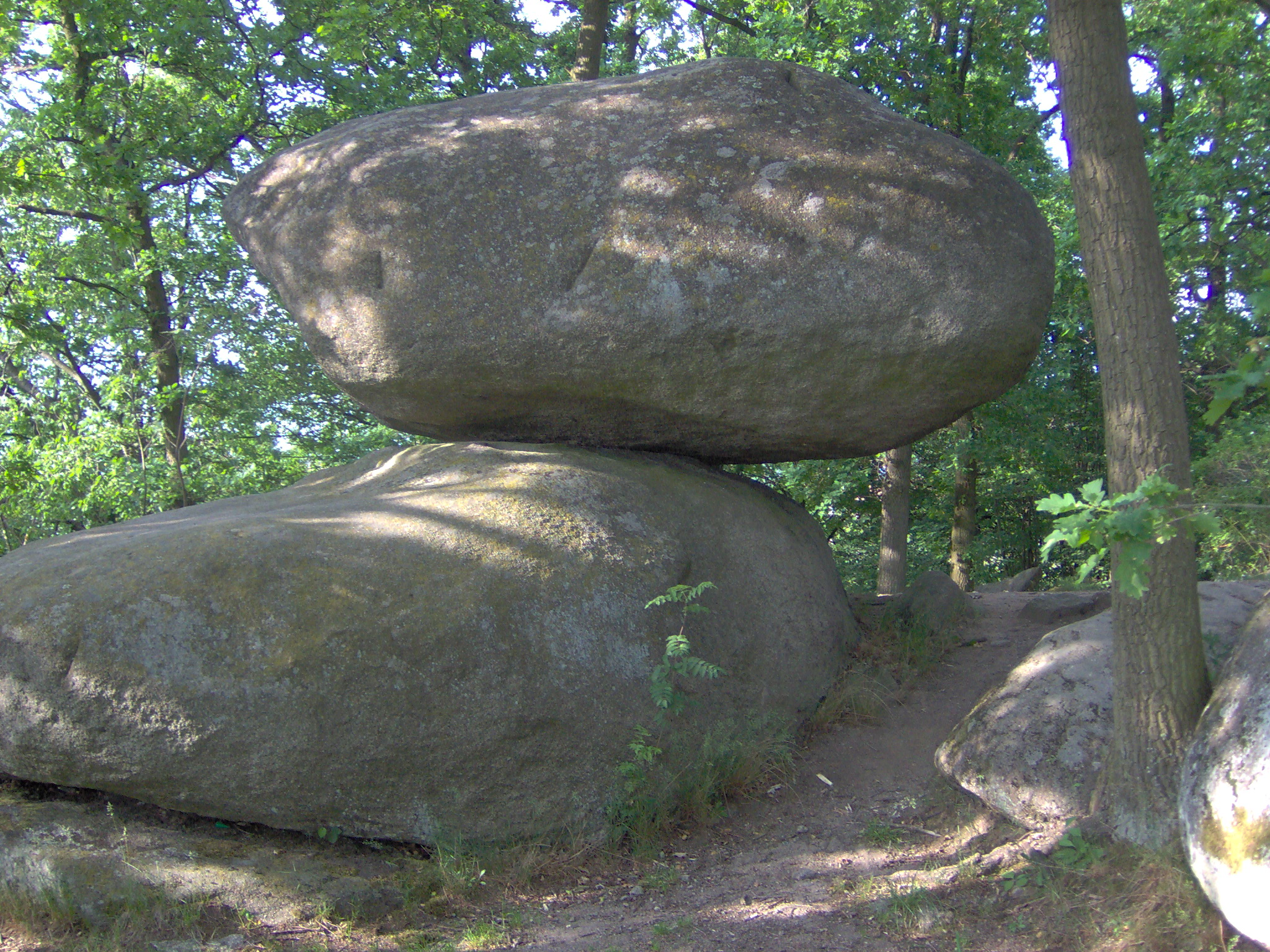 Rocking stone in Kadov, Strakonice District, Czech republic